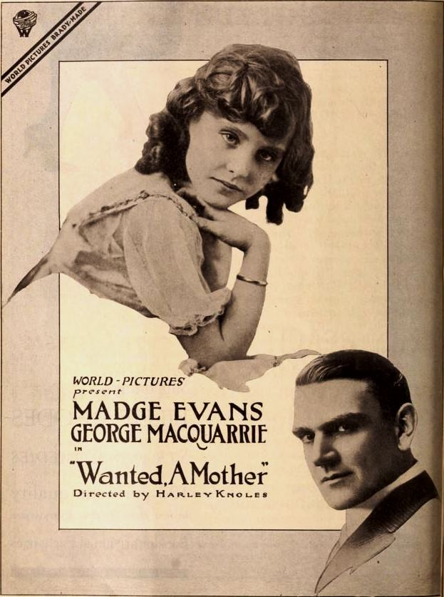 Advertisement for the American drama film Wanted: A Mother (1918) with Madge Evans and George MacQuarrie, on page 4 of the March 23, 1918 Exhibitors Herald.